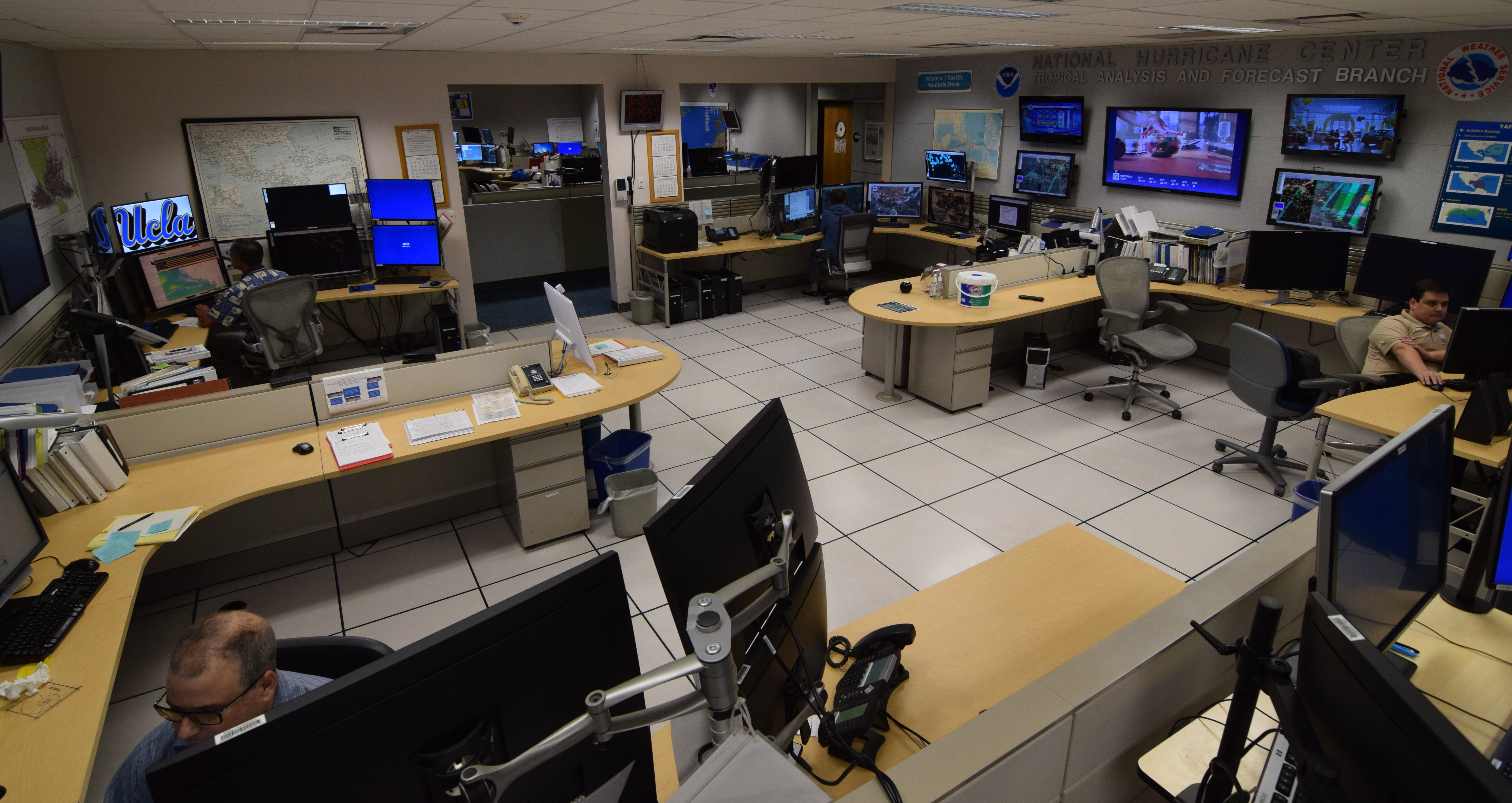 Panoramic Photo of TAFB Operations